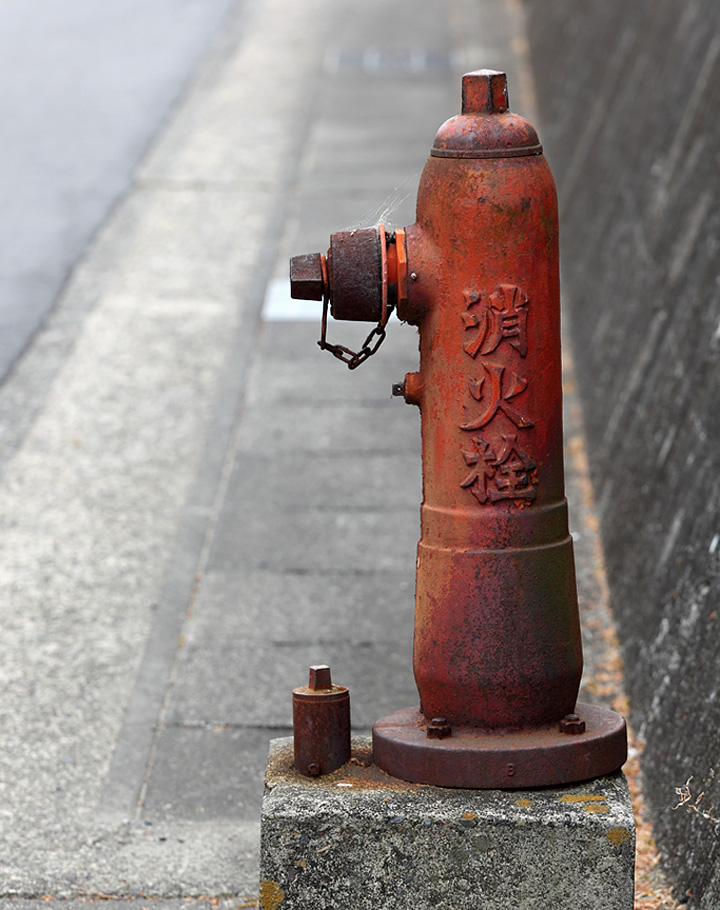 A single mouth type fire hydrants in Aichi prefecture.